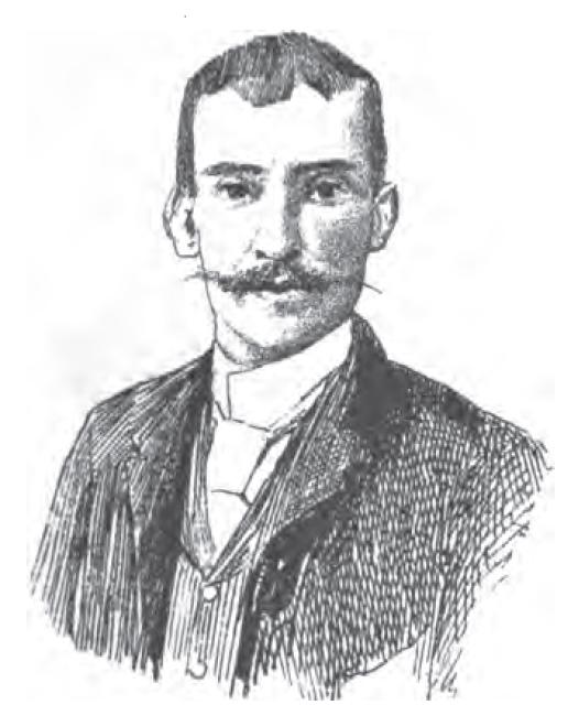 Hestia (1876) Author: Diomedes, Paulos Subject: Greek literature, Modern; Greek periodicals Publisher: Athēnēsi : s.n. Year: 1894 Possible copyright status: NOT_IN_COPYRIGHT Language: Greek Digitizing sponsor: Google Book from the collections of: Harvard University Collection: americana